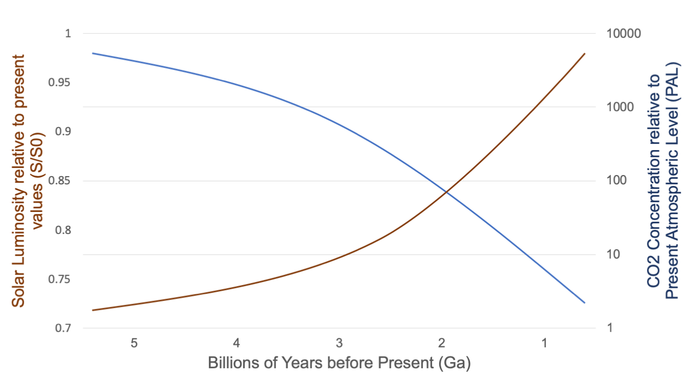 This is a schematic of the approximate carbon dioxide necessary to maintain liquid water on the surface of Earth as the sun became brighter over time. It has been adapted from Catling and Keeling (2017)